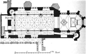 ground plan of the Schlosskirche, Schwerin, Germany